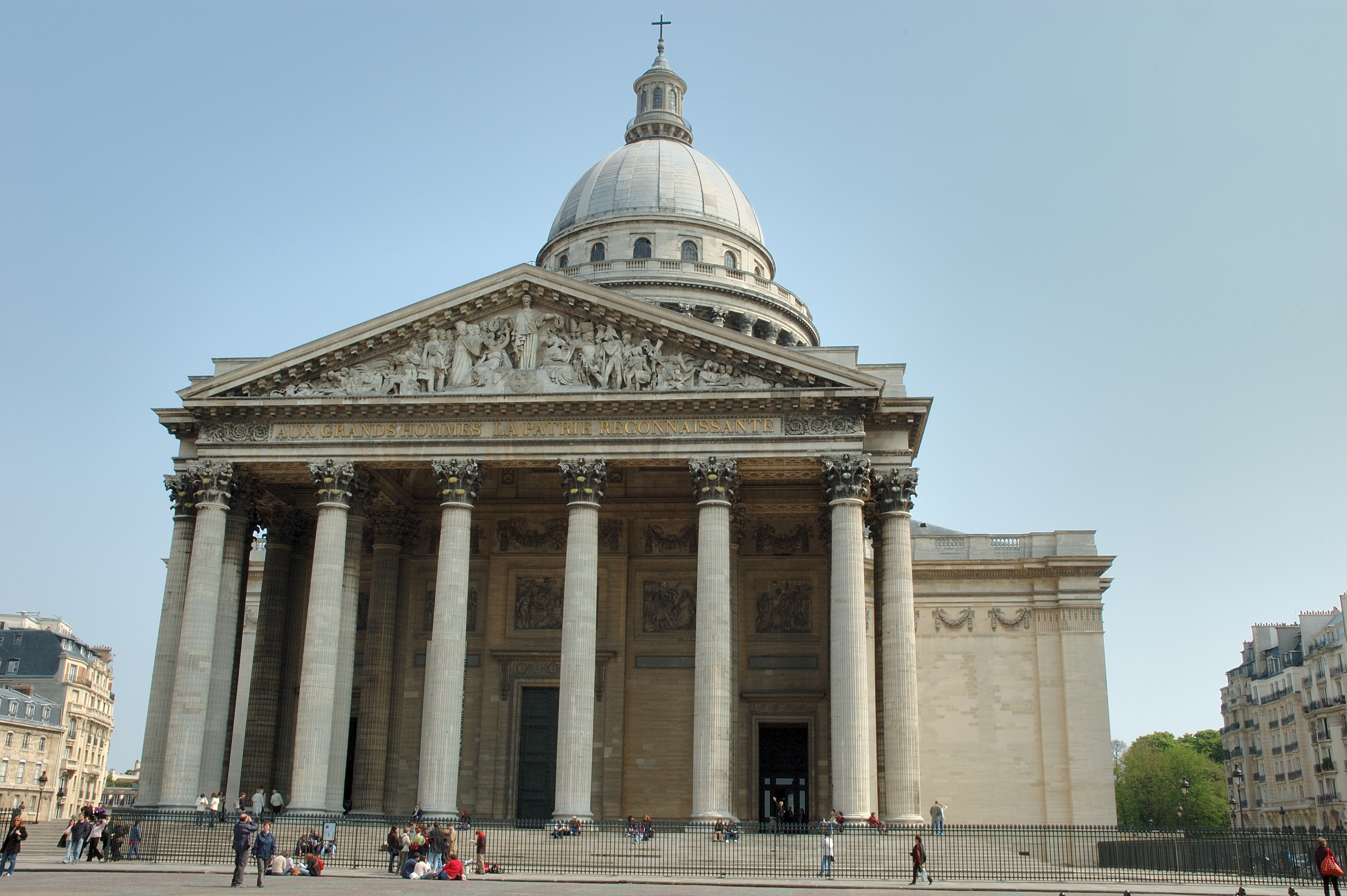 Panthéon as seen from the Rue Soufflot, Paris, France.